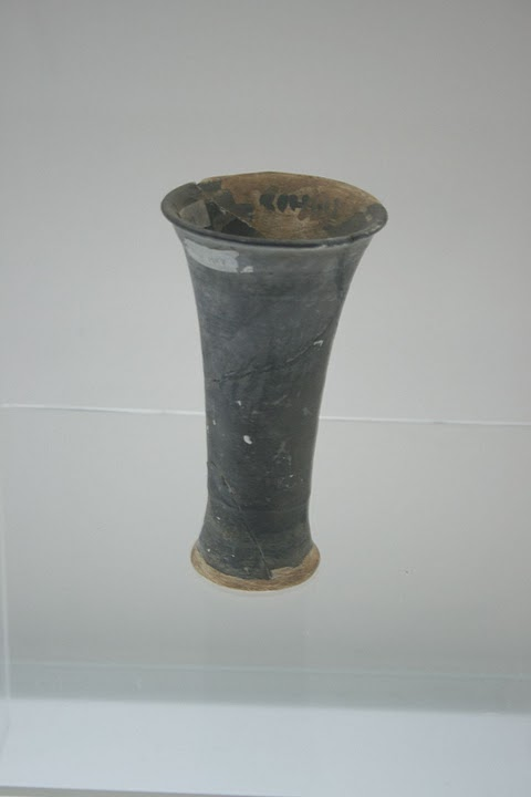 Xia Dynasty pottery gui